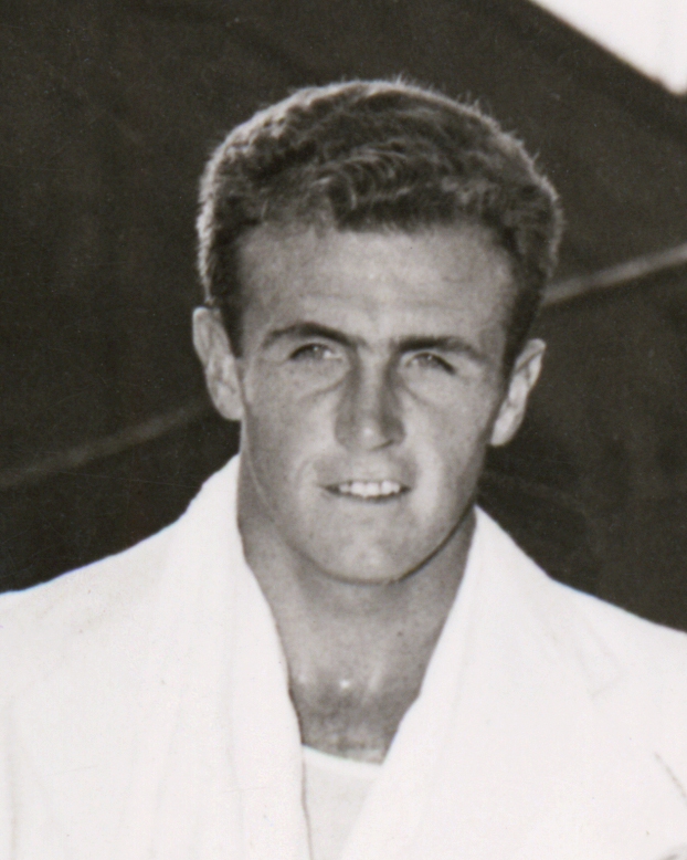 Australian tennis player Ken McGregor before the second singles match, against Ted Schroeder , in the Davis Cup challenge round at West Side Tennis Club, Forest Hills, New York.